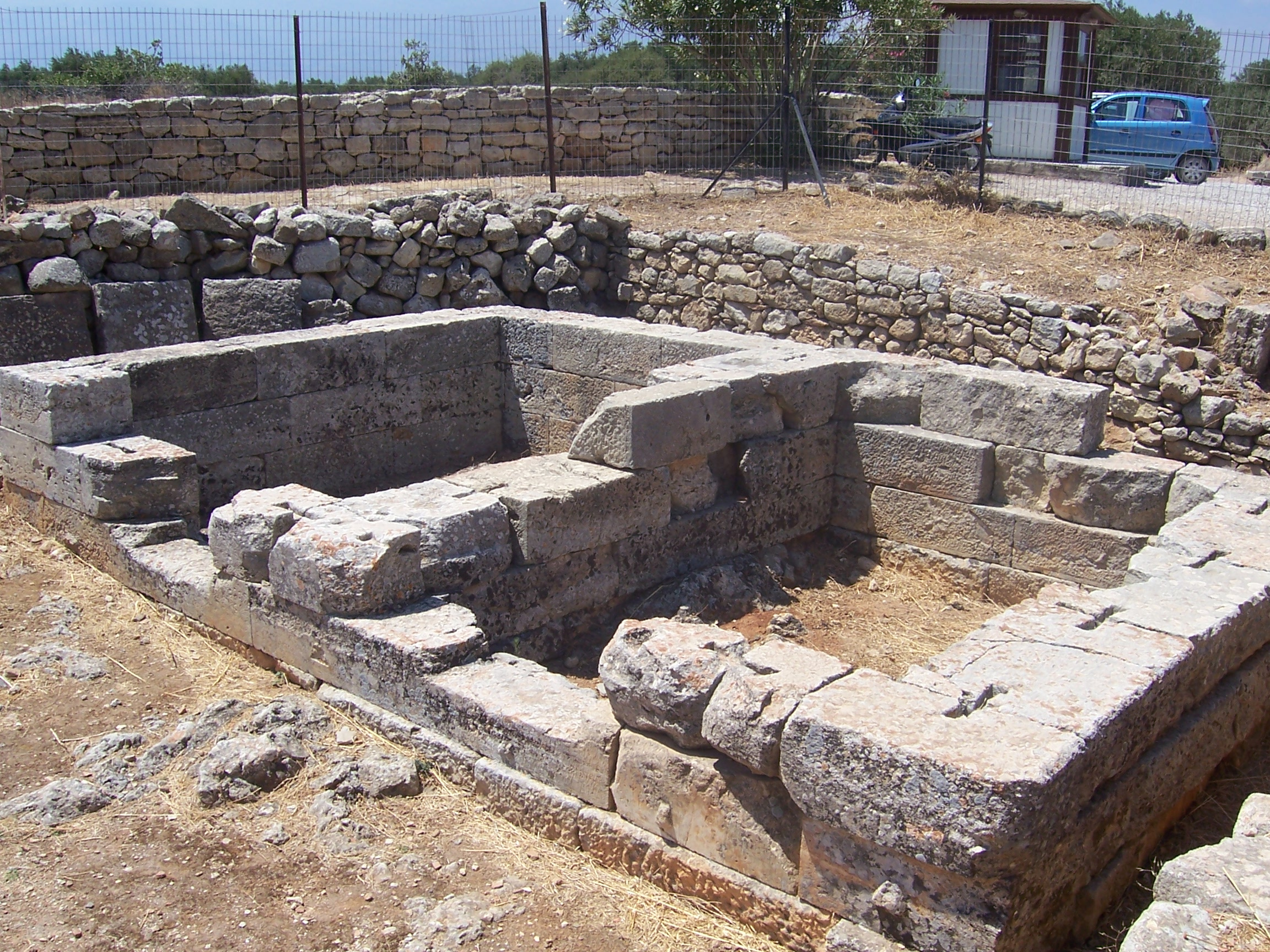 Double-shrine temple in Aptera. Crete, Greece